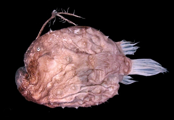 Cut-out from original shown below